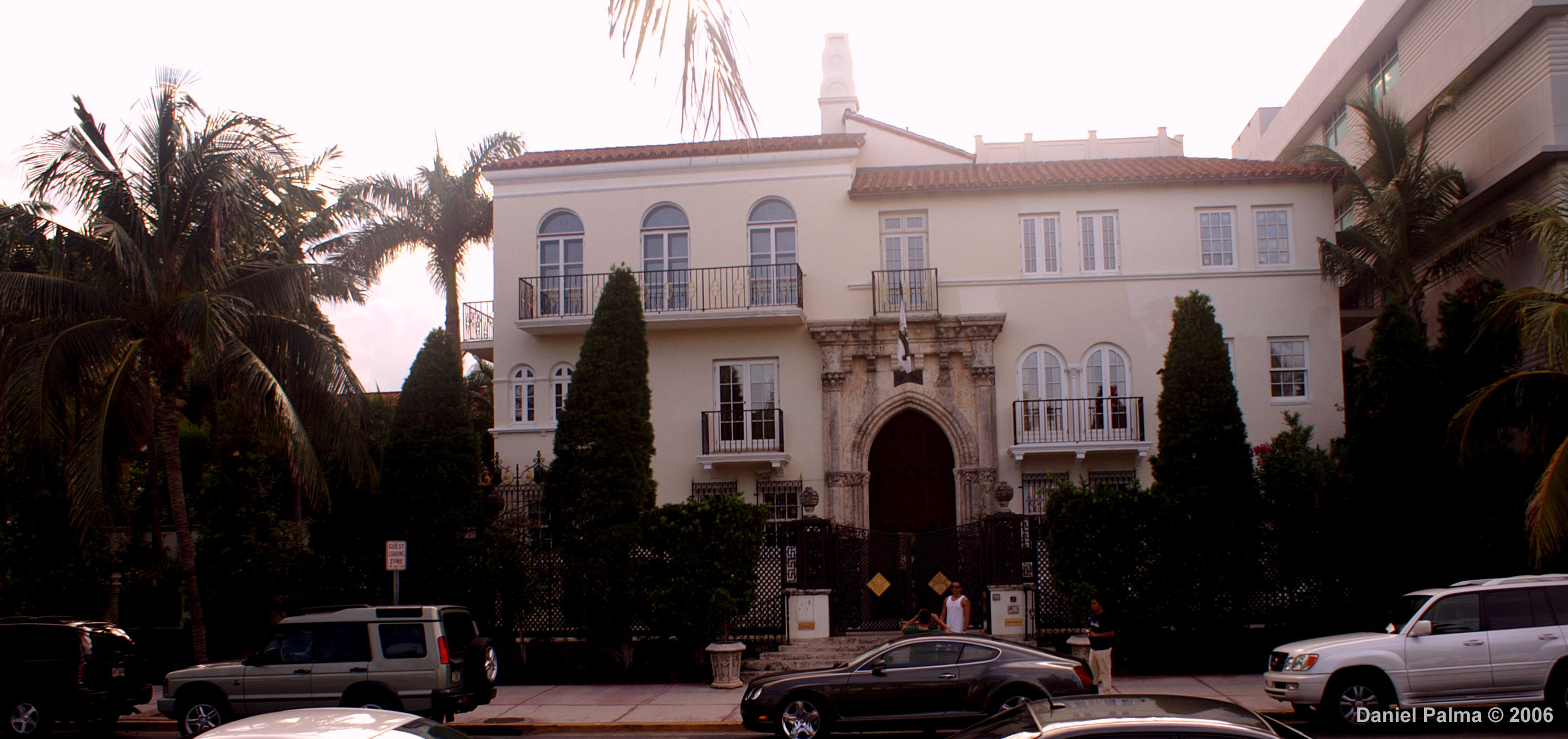 Until September of 2000, this was Gianni Versace's Miami Beach home. Ocean Drive and 11th Street